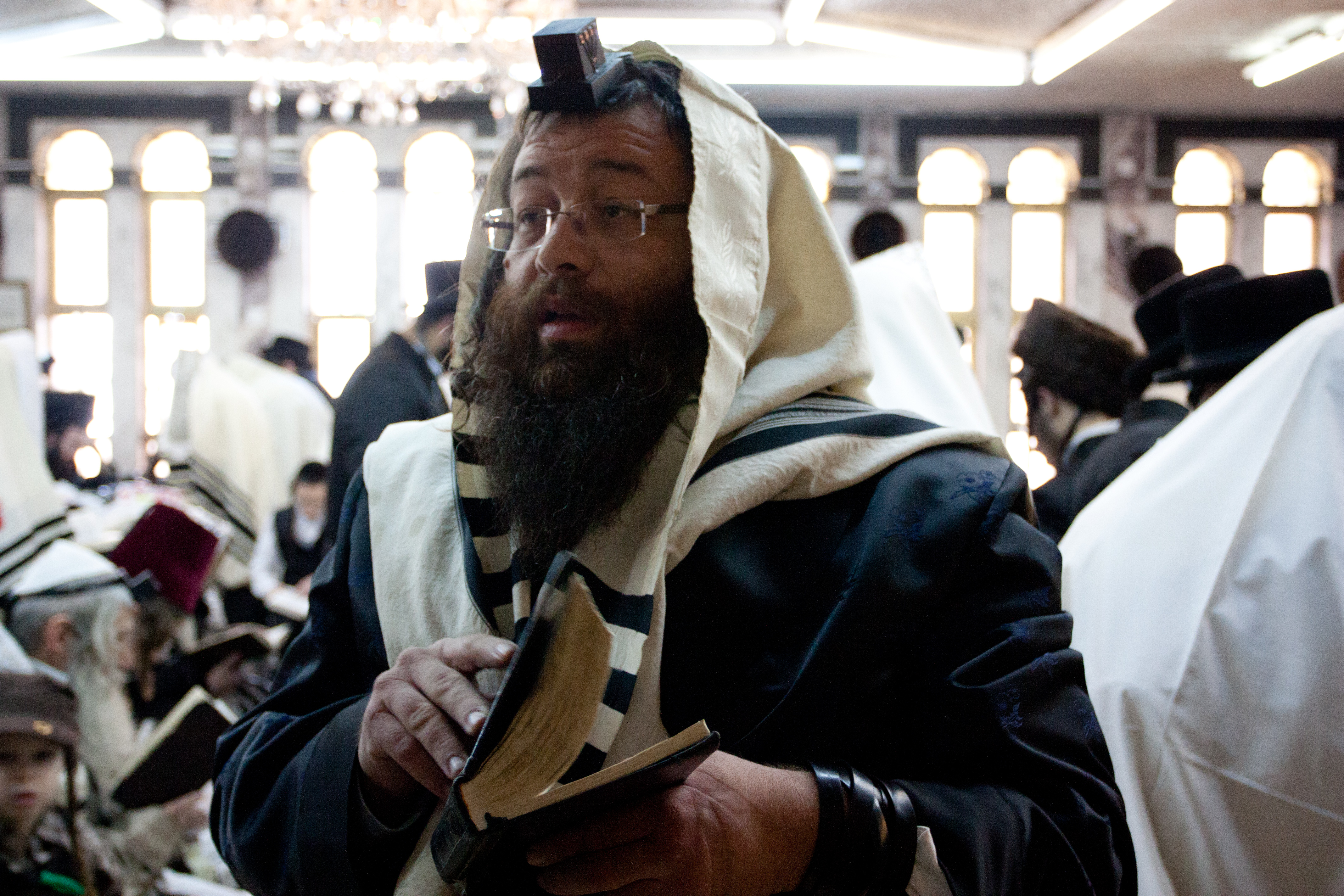 Prayer on Purim